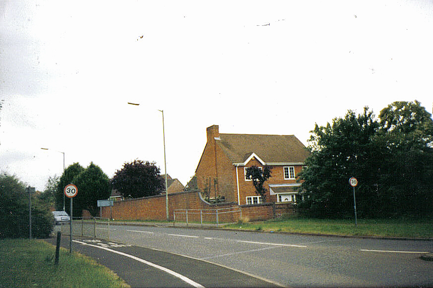 A picture I took of the Hardwick, Banbury in the early 2000's. I donate it to the public domaine.